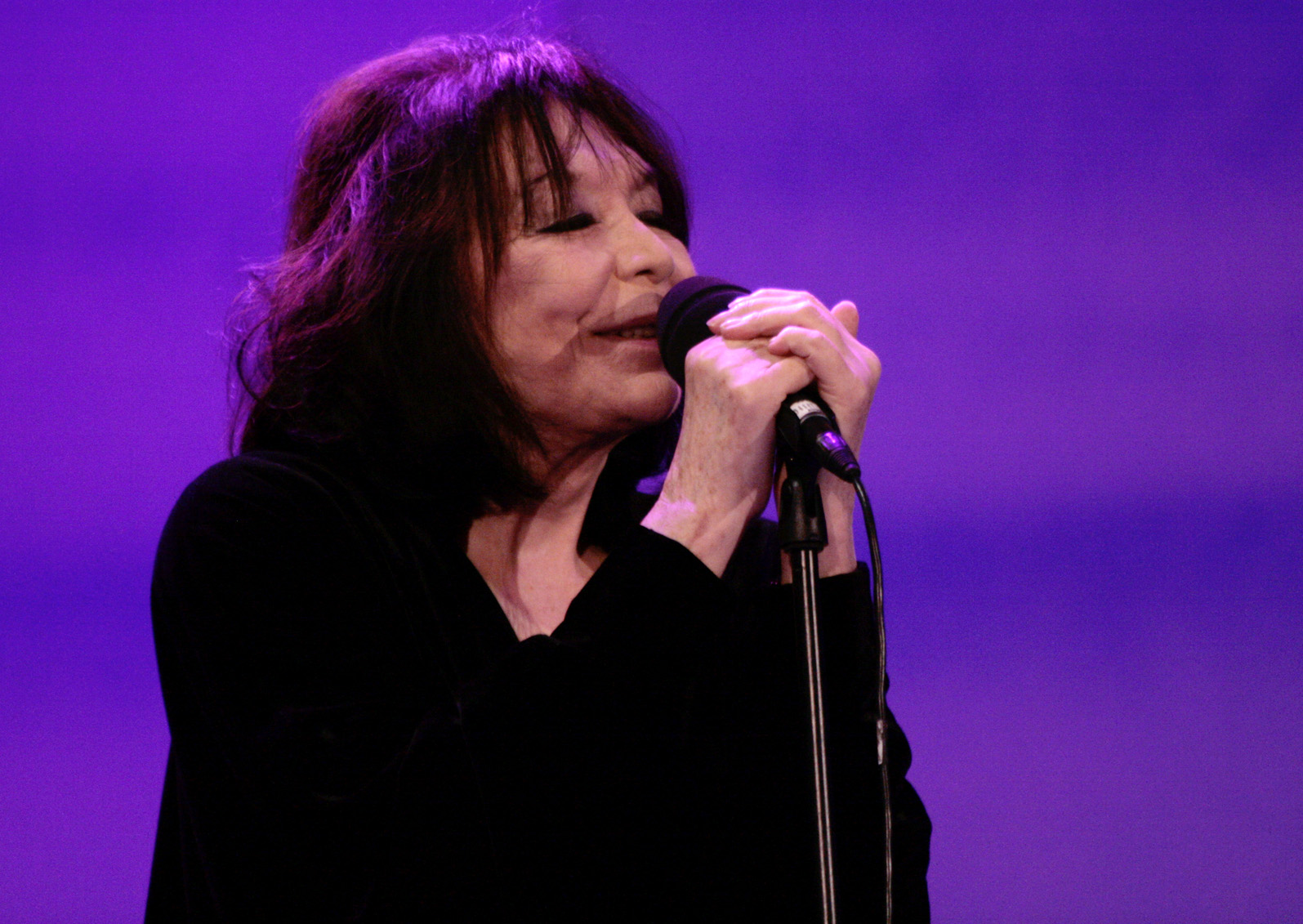 Juliette Gréco; concert at the opening of the Vienna Festival 2009